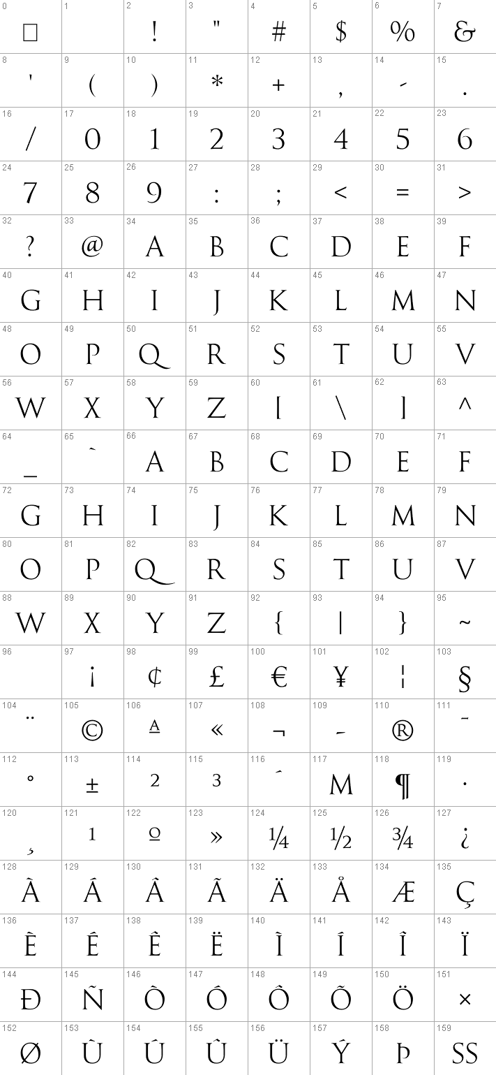 goudy trajan glifs